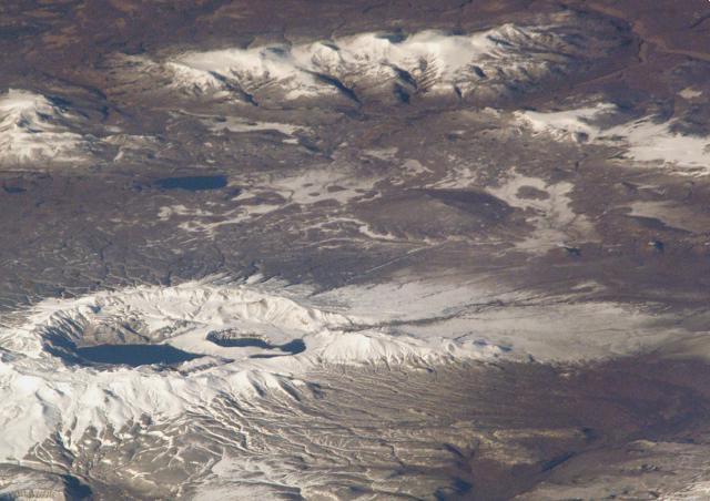 The small, low-angle, snow-free volcano with a circular outline above and to the right of the center of this image is Ozernoy volcano. This early Holocene basaltic shield volcano is dwarfed by its neighbor to the SE, massive Ksudach caldera (lower left).